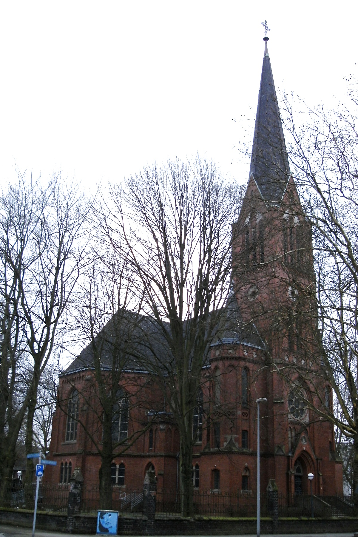 Lutherkirche, a protestant church in Oberhausen (Germany)